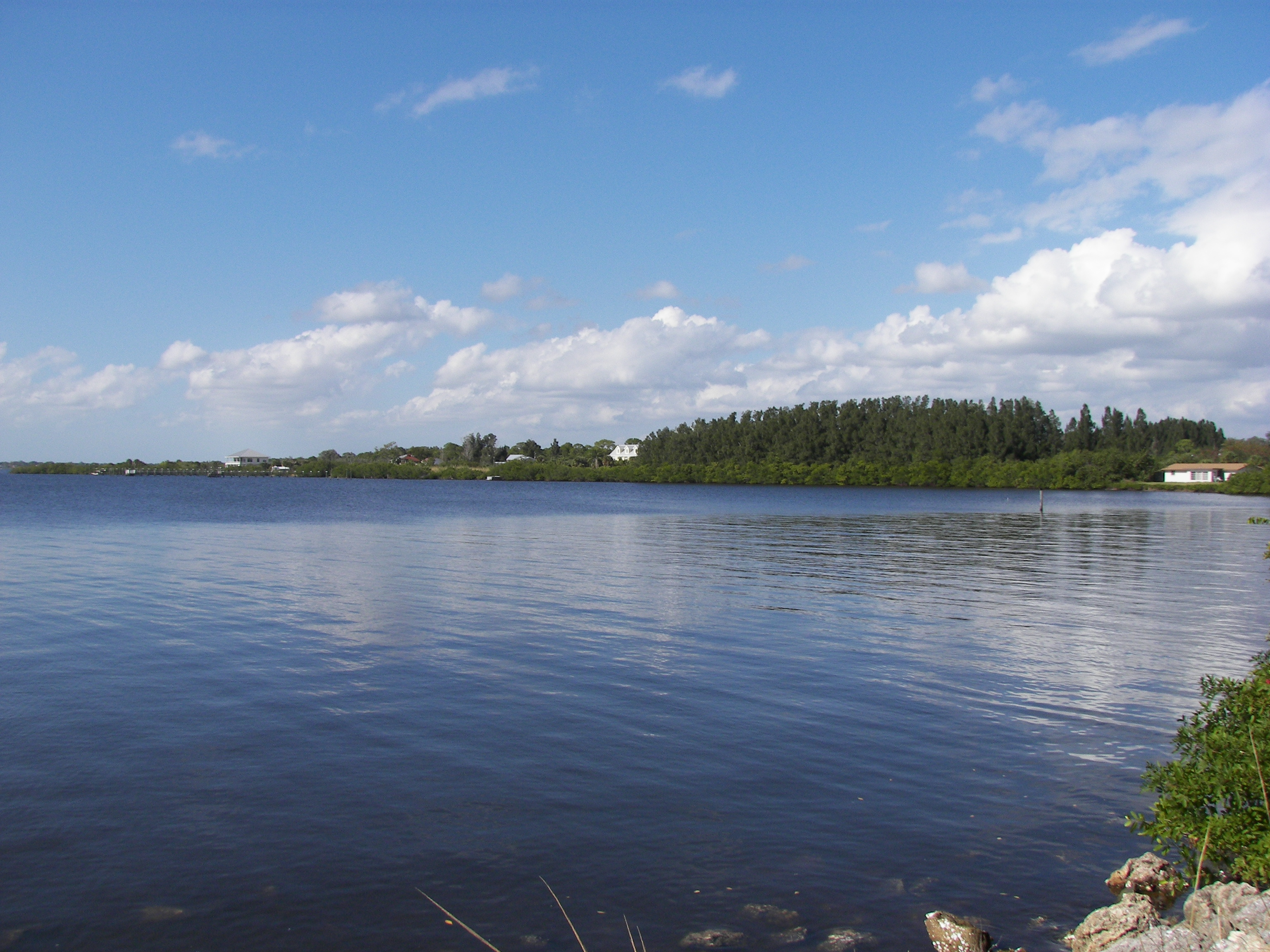 Picture of the Myakka River taken near the fishing pier at U.S. 41 in El Jobean, Florida.